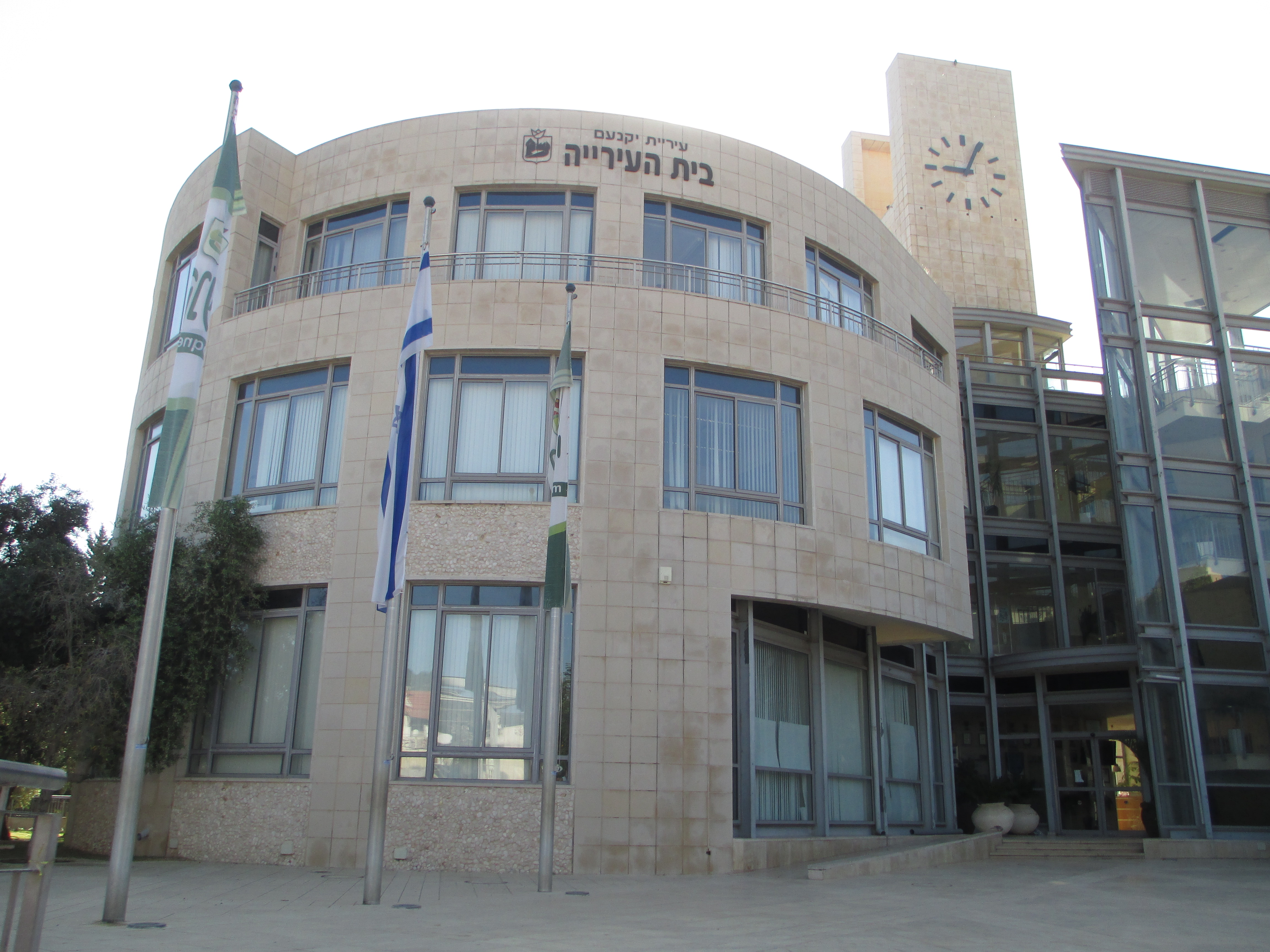 Yokneam Municipality